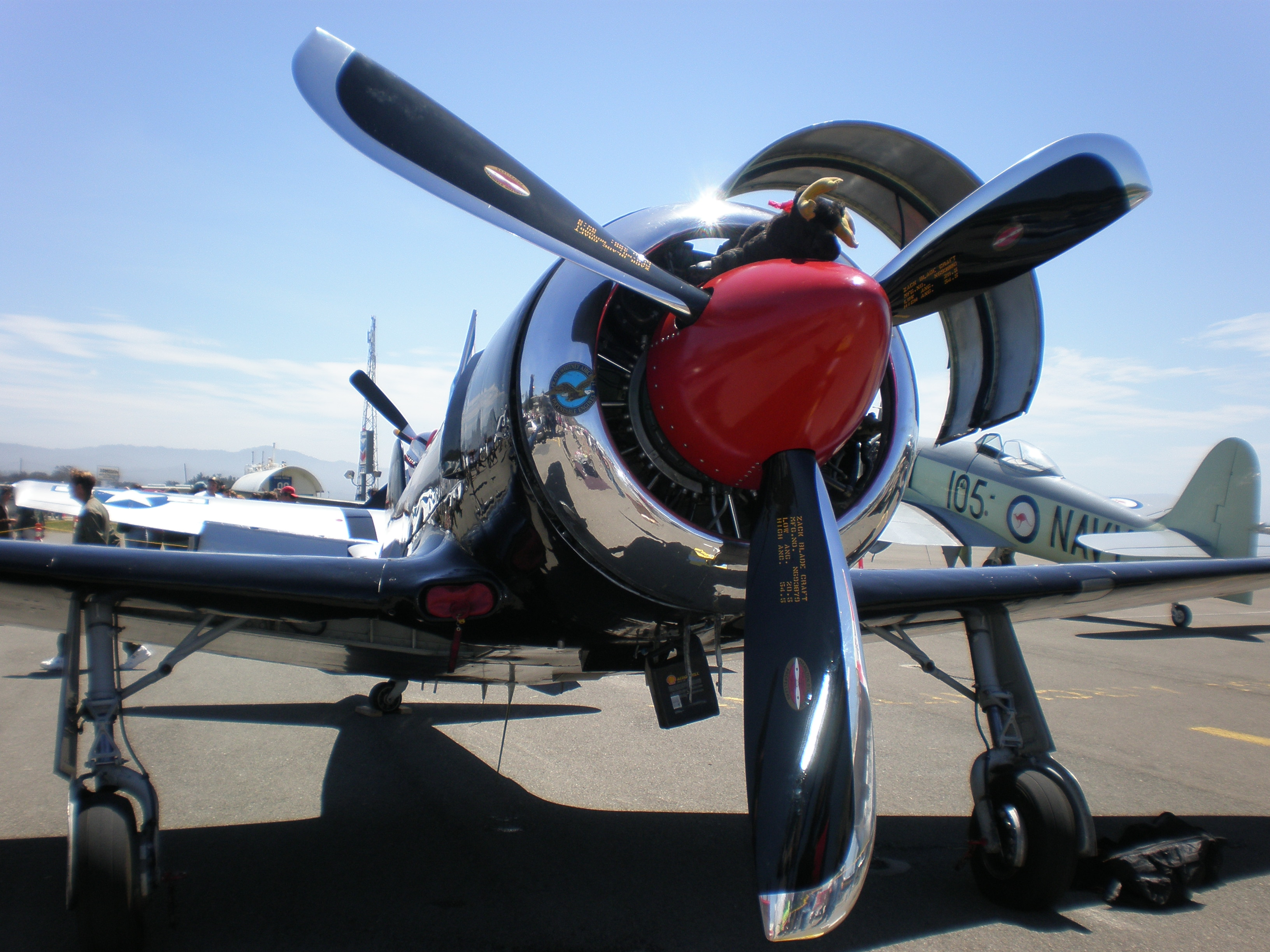 A Yakovlev Yak-11 C-11 at the Pacific Coast Dream Machines vehicle show at the Half Moon Bay Airport in Half Moon Bay, California.